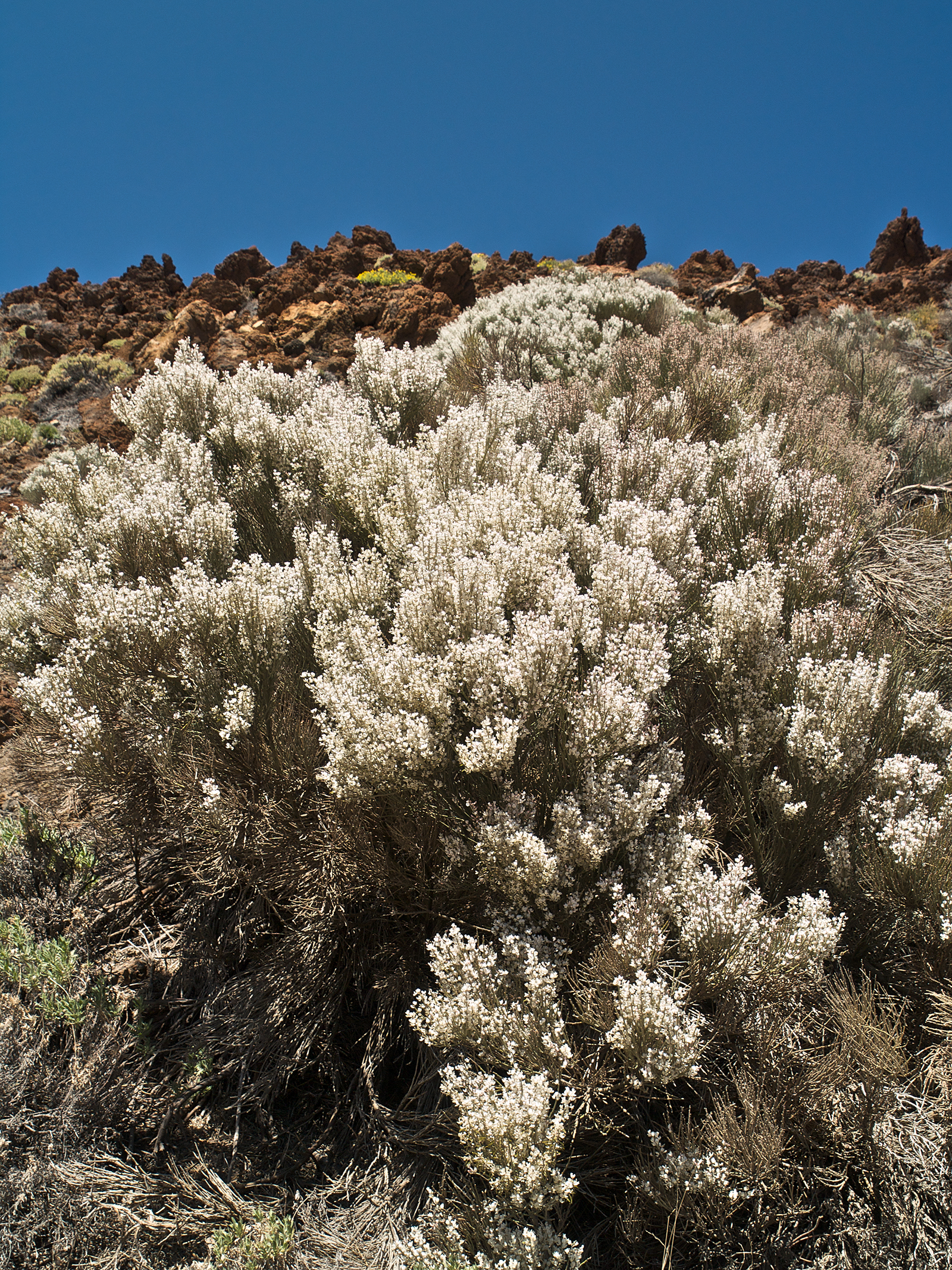 Retama del Teide (Spartocytisus supranubius), Tenerife, Spain